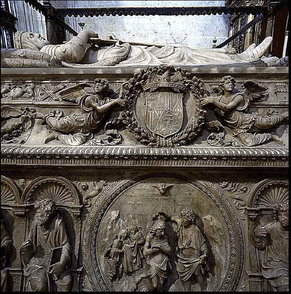 Church monument of Ferdinand II of Aragon (d. 1516) at the Capilla Real, Granada, Spain